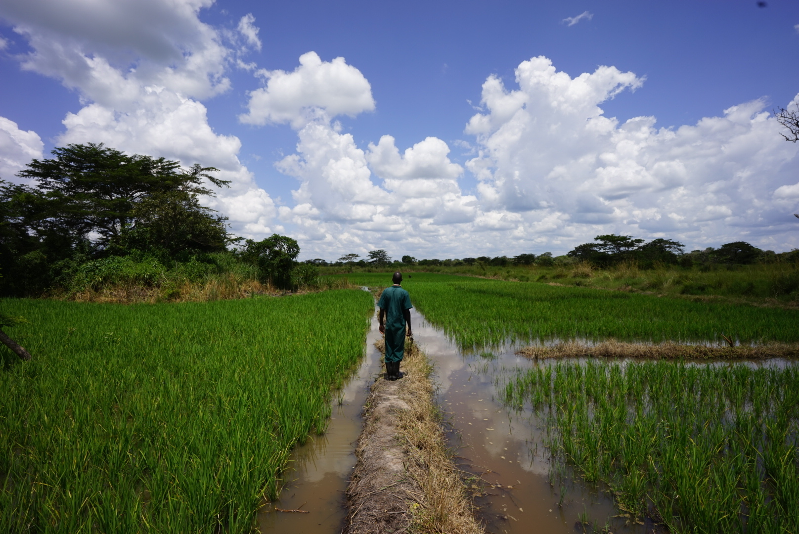 Daniel, manager of a demonstration farm ran by ICES (Initiatives for Community Empowerment and Support), inspecting his rice fields in Apac, northern Uganda. ICES, a local partner of the Flemish ngo Broederlijk Delen, supports small scale farmers in Lango. This is an image of "African people at work" from Uganda